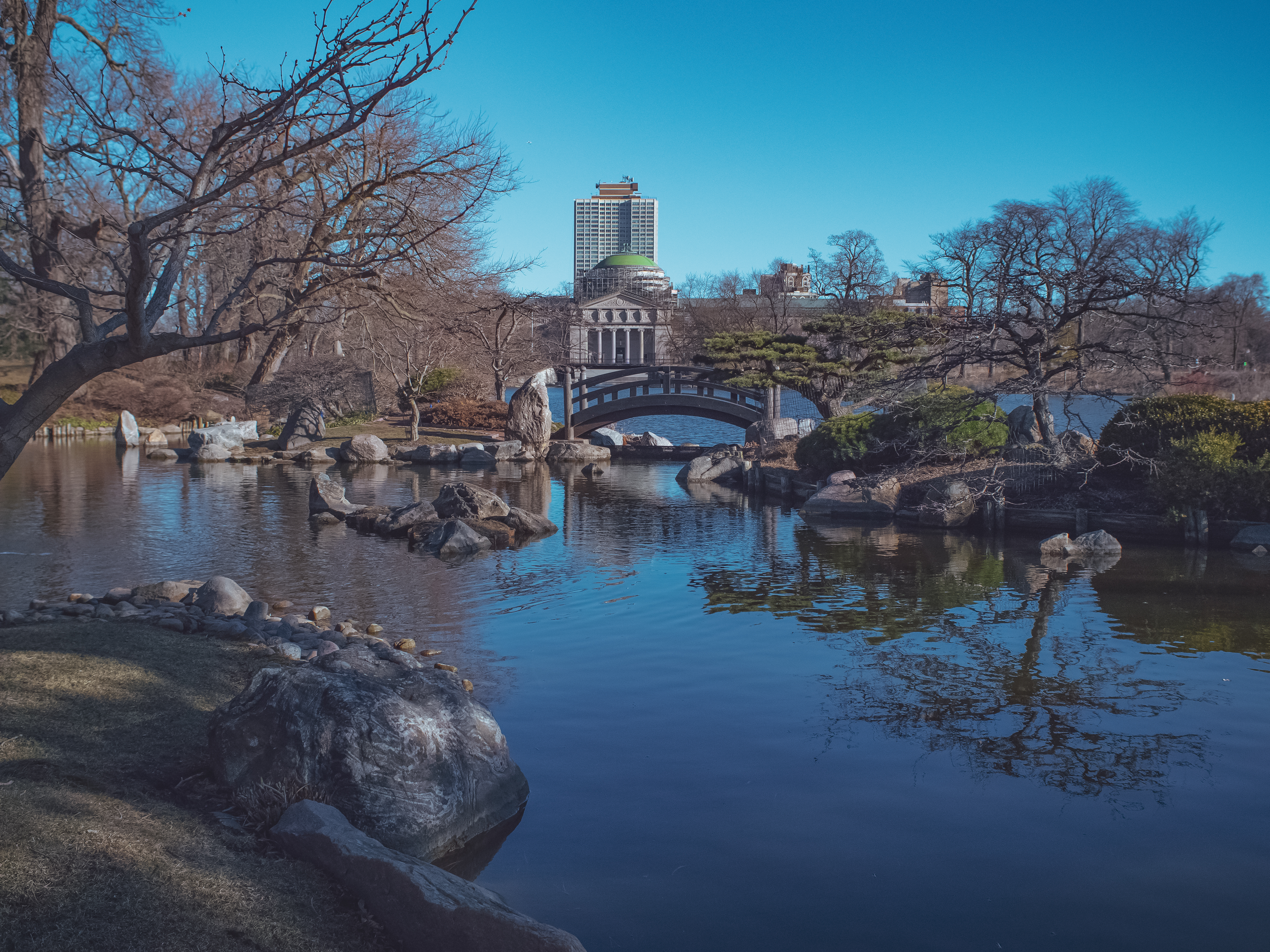 This photo was taken on March 22nd, 2019